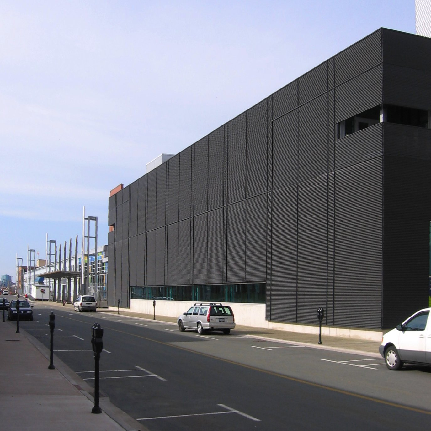 View of NSCAD University Seaport Campus in Halifax Regional Municipality. the building is a highly modified warehouse on the Port of Halifax.